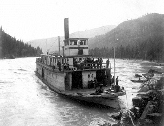 North Star on Columbia River, in British Columbia, ca 1902.